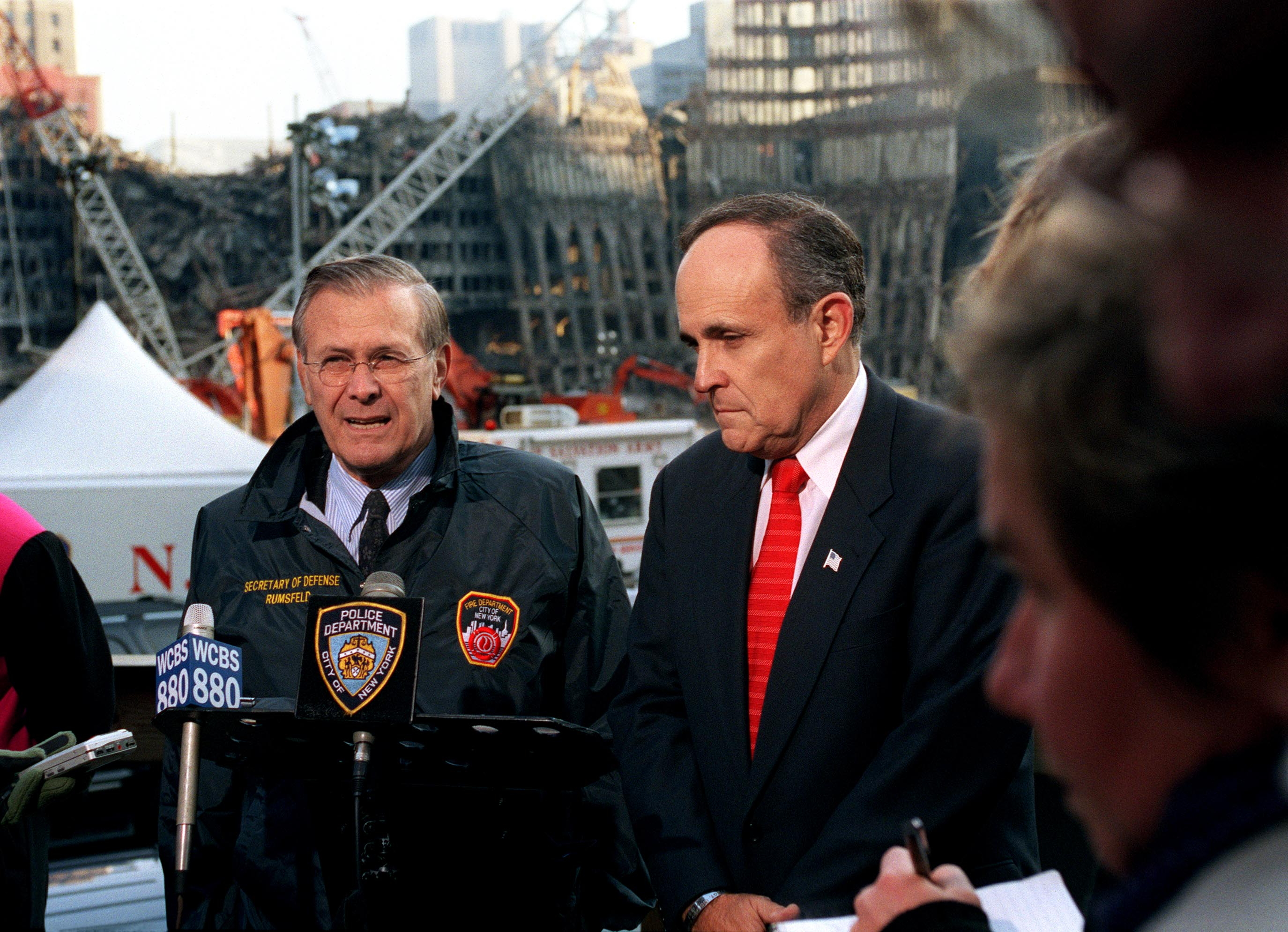 Secretary of Defense Donald Rumsfeld (left) and New York Mayor Rudy Giuliani (right) hold a joint media availability at the site of the World Trade Center disaster in lower Manhattan, on Nov. 14, 2001. Rumsfeld is visiting the site of the Sept. 11th disaster to speak to Giuliani, officials from the N.Y. Fire Department and the Office of Emergency Management.